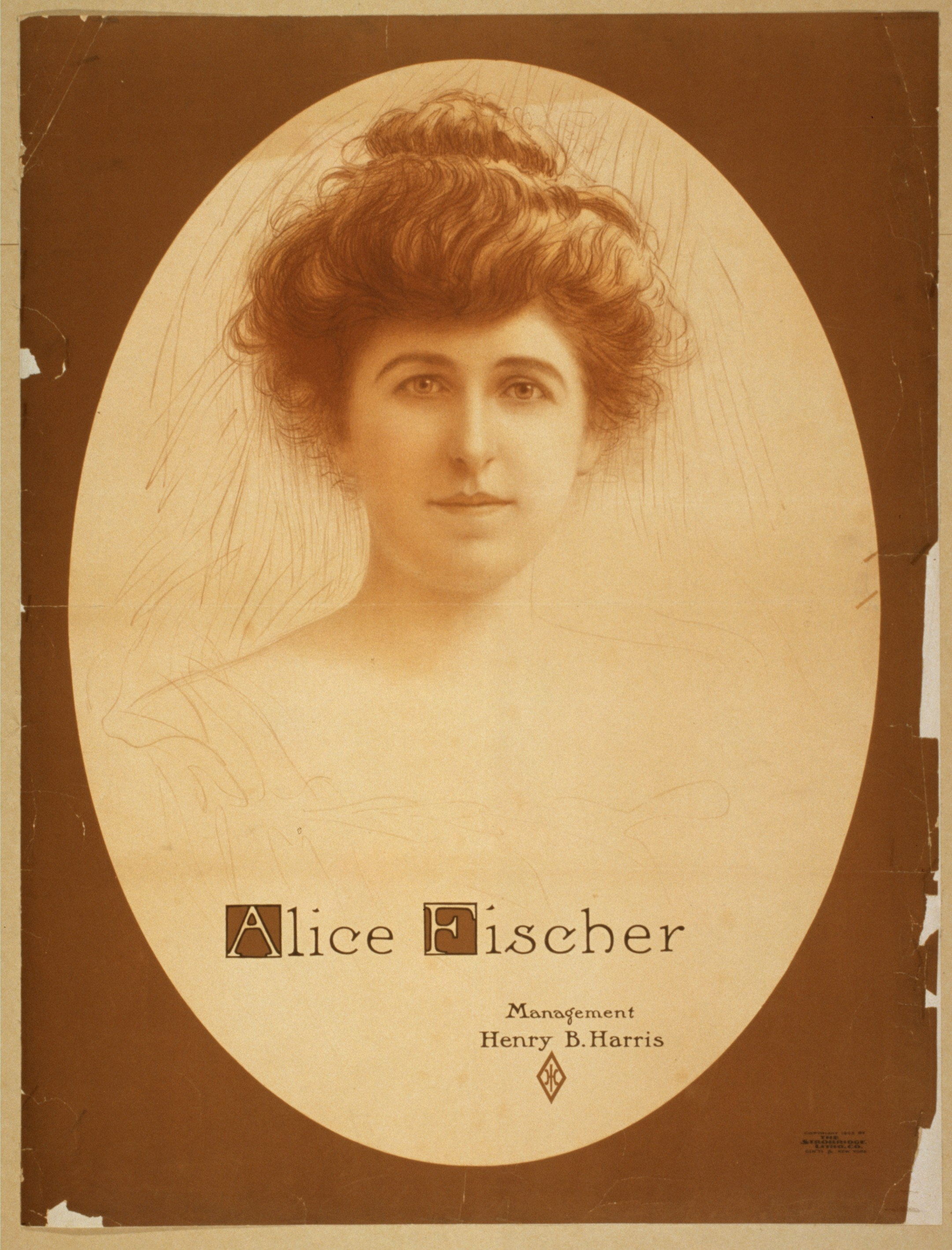 Title: Alice Fischer Abstract/medium: 1 print : color lithograph ; sheet 84 x 65 cm. (poster format)